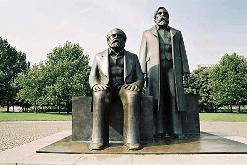 Statue of Marx and Engels. A part of the Marx-Engels-Forum in Berlin-Mitte.